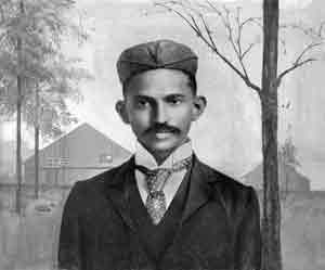 Gandhi shortly after arriving in South-Africa, in 1895.